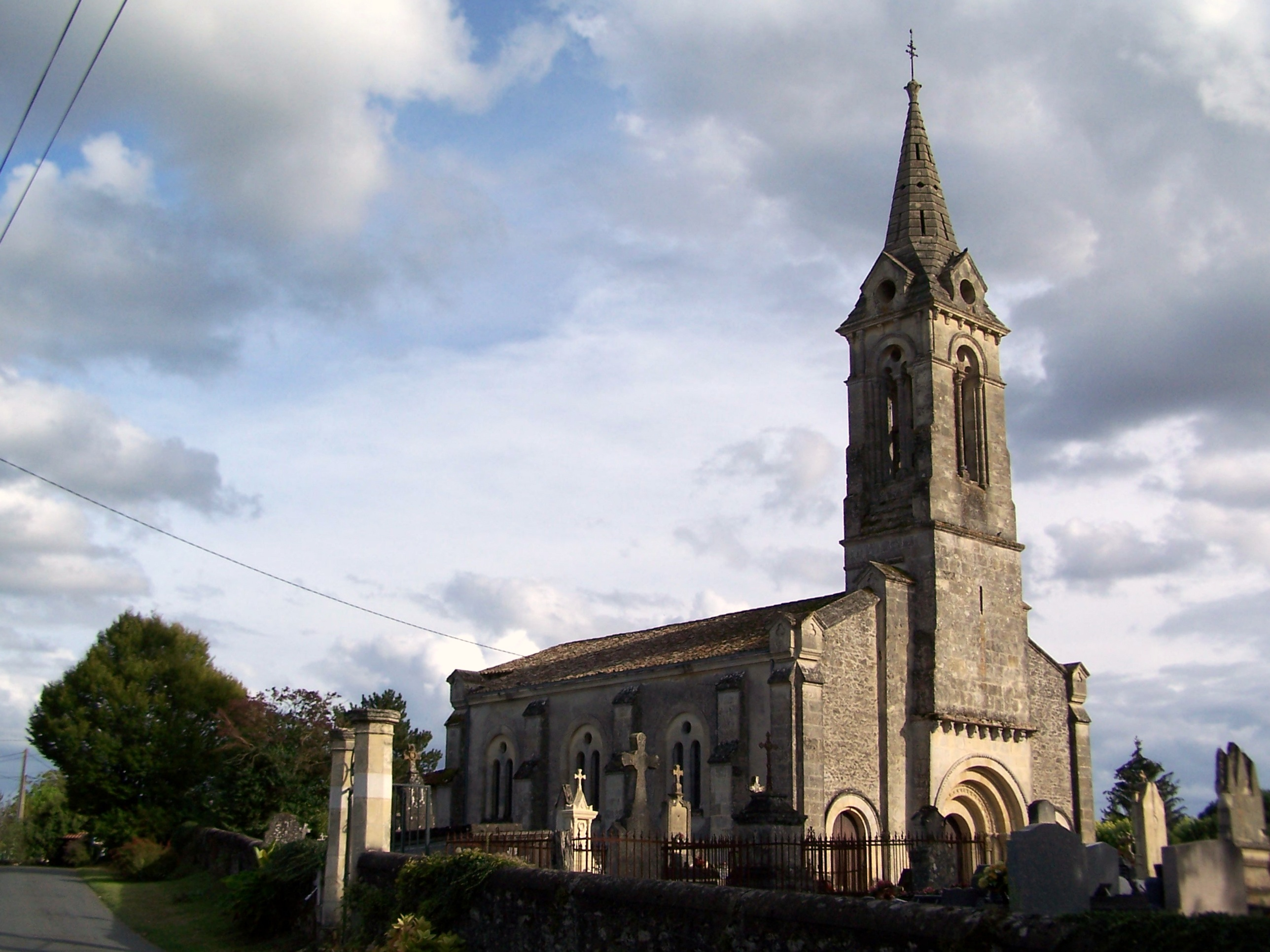 Saint Martin church of Coirac (Gironde, France)